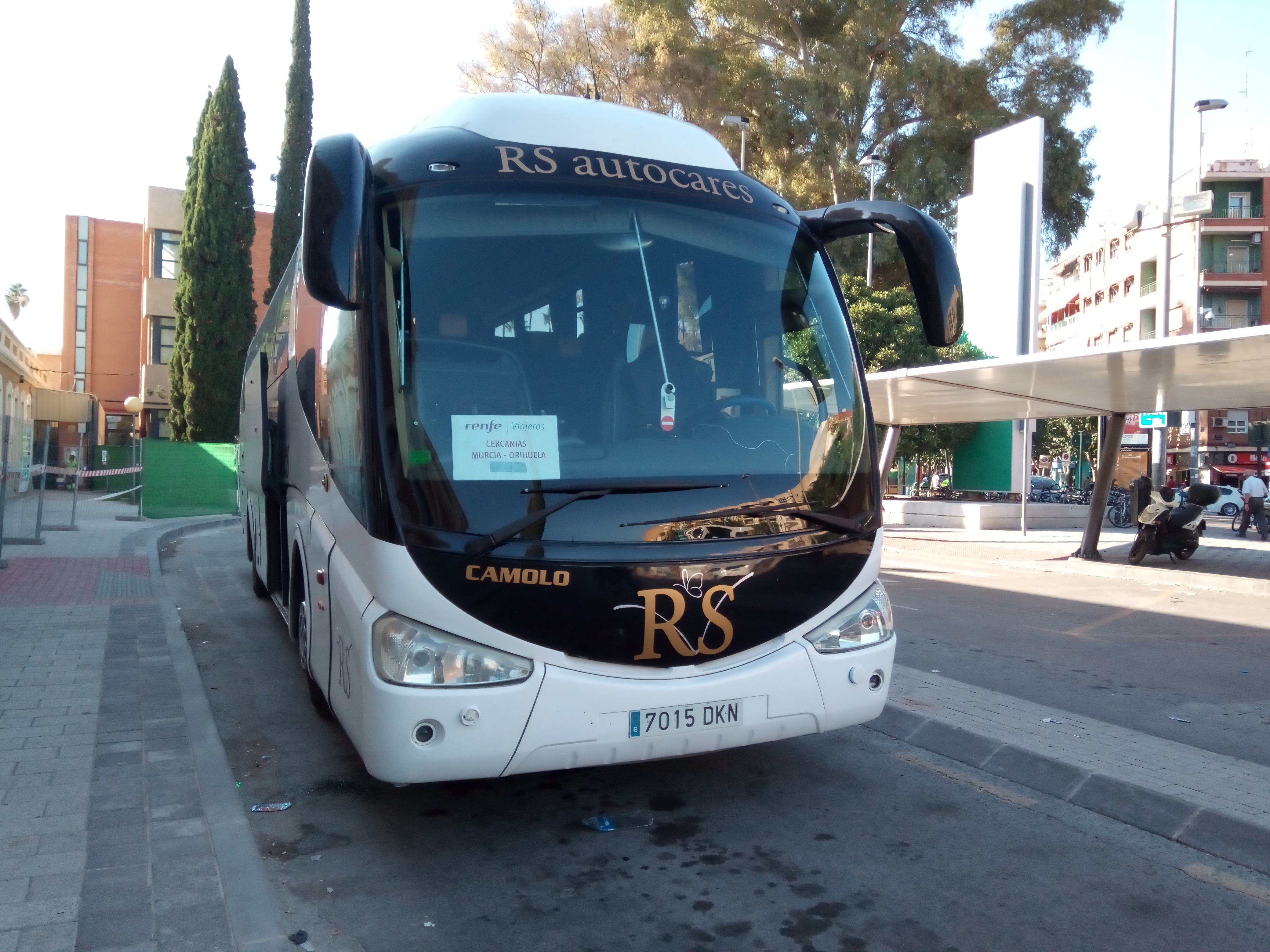 Irizar PB.